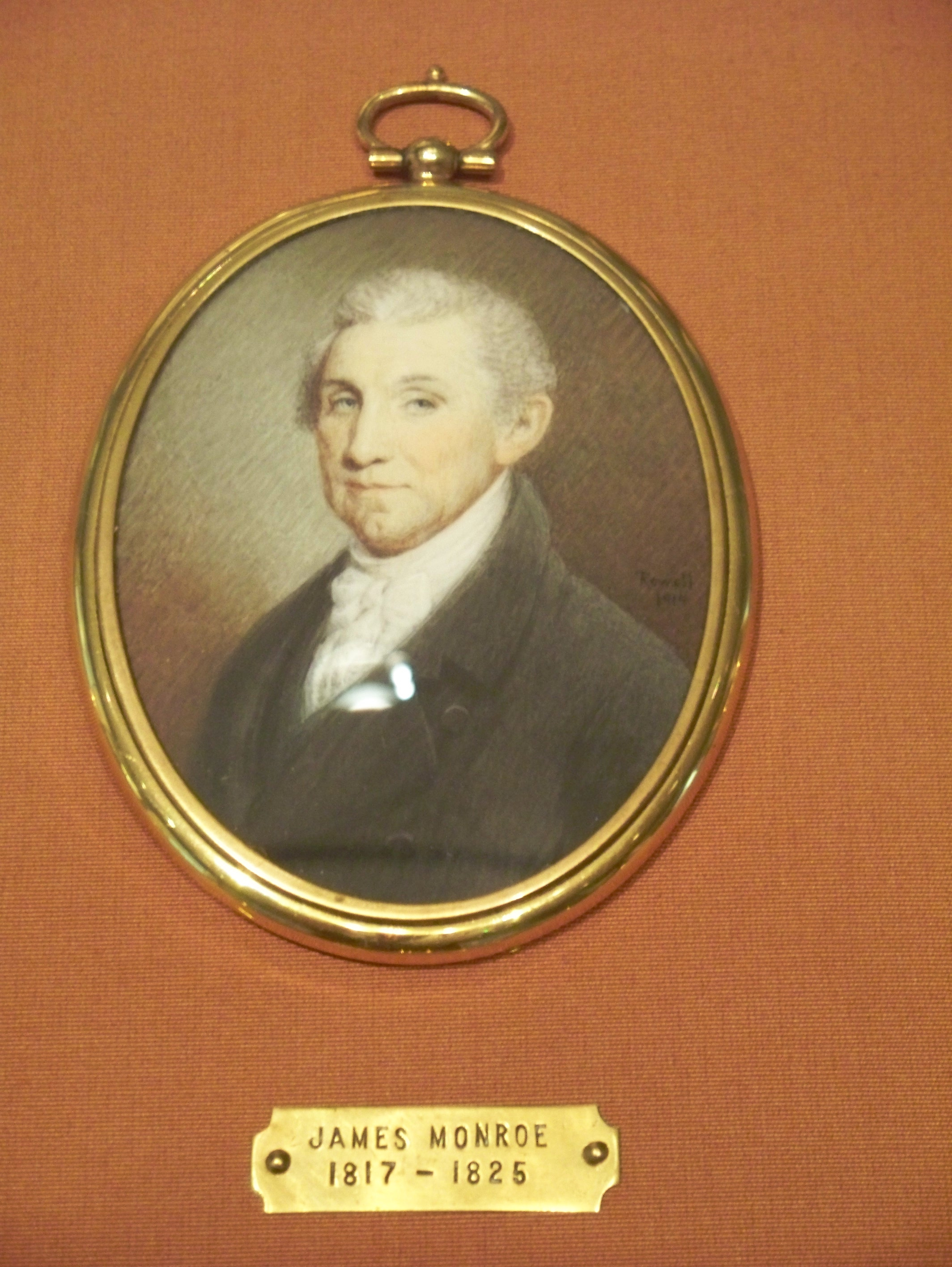 Miniatures of the Presidents of the United States - James Monroe by Arthur J. Rowell, Thomas Lincoln 1914-23, 1925-28 Watercolor on ivory, each approximately 7.9 x 6.4 cm; enclosed in gilt-metal pendant cases and mounted in velvet-lined display frame Taft Museum of Art, Taft collection 1931.341 Wikipedia Loves Art at the Taft Museum of Art This photo of item # 1931.337-66 at the Taft Museum of Art was contributed under the team name "Opal_Art_Seekers_4" as part of the Wikipedia Loves Art project in February 2009. Taft Museum of Art The original photograph on Flickr was taken by Forever Wiser—please add a comment to the original Flickr page whenever a use has been made on Wikipedia or another project. Project galleries on Flickr: this institution, this team Miniatures of the Presidents of the United States - James Monroe by Arthur J. Rowell, Thomas Lincoln 1914-23, 1925-28 Watercolor on ivory, each approximately 7.9 x 6.4 cm; enclosed in gilt-metal pendant cases and mounted in velvet-lined display frame Taft Museum of Art, Taft collection 1931.341 Wikipedia Loves Art at the Taft Museum of Art This photo of item # 1931.337-66 at the Taft Museum of Art was contributed under the team name "Opal_Art_Seekers_4" as part of the Wikipedia Loves Art project in February 2009. Taft Museum of Art The original photograph on Flickr was taken by Forever Wiser—please add a comment to the original Flickr page whenever a use has been made on Wikipedia or another project. Project galleries on Flickr: this institution, this team